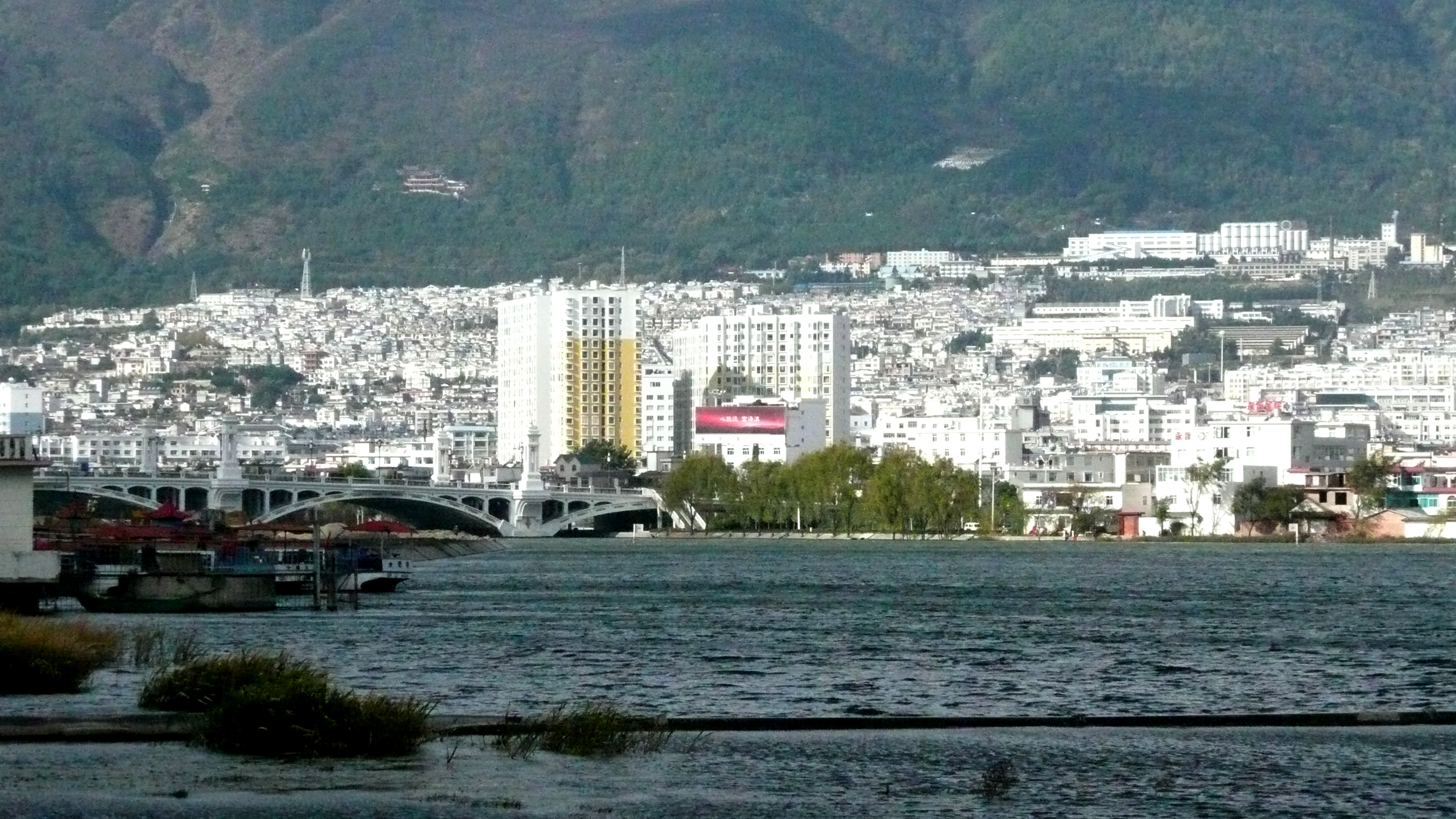 Dali Xiaguan - New Dali City, Yunnan